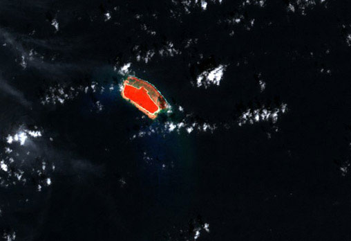 Landsat 7 (path 122, row 048) of Lincoln Island, Paracel Islands.